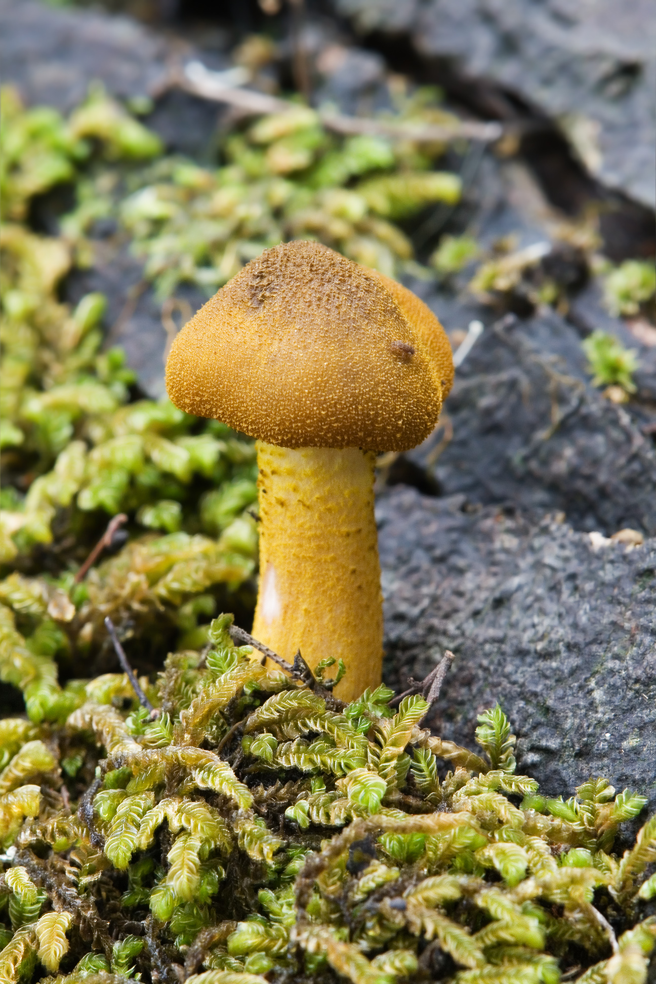 Armillaria luteobubalina. Wielangta Forest, Tasmania Camera data Camera Canon EOS 400D Lens Tamron EF 180mm f3.5 1:1 Macro Flash Umbrella Right Focal length 180 mm Aperture f/10 Exposure time 1/8 s Sensivity ISO 400